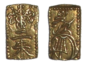 Tenpo-2shuban